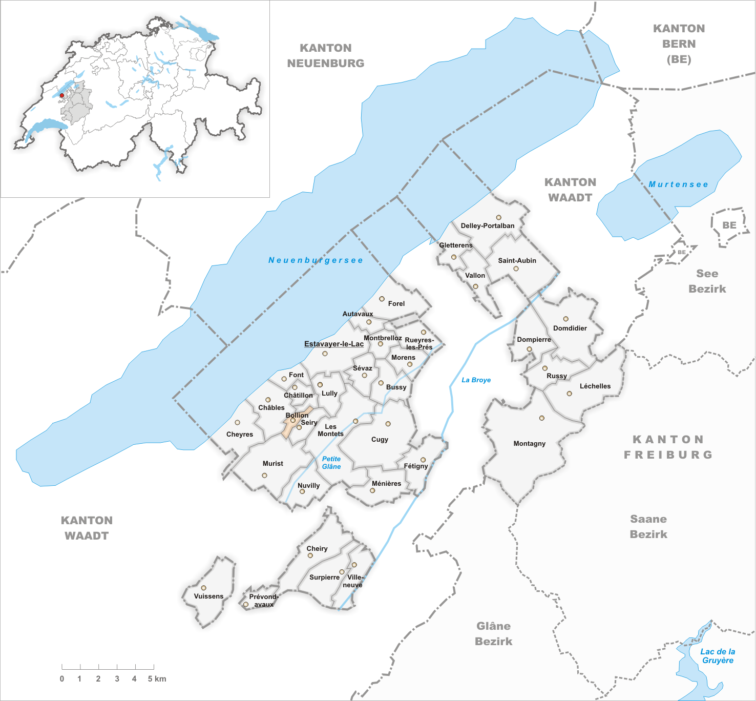 Municipality Bollion Artist: Tschubby